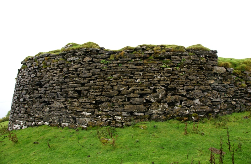 Tirefour Broch, Lismore, Scotland - from north west